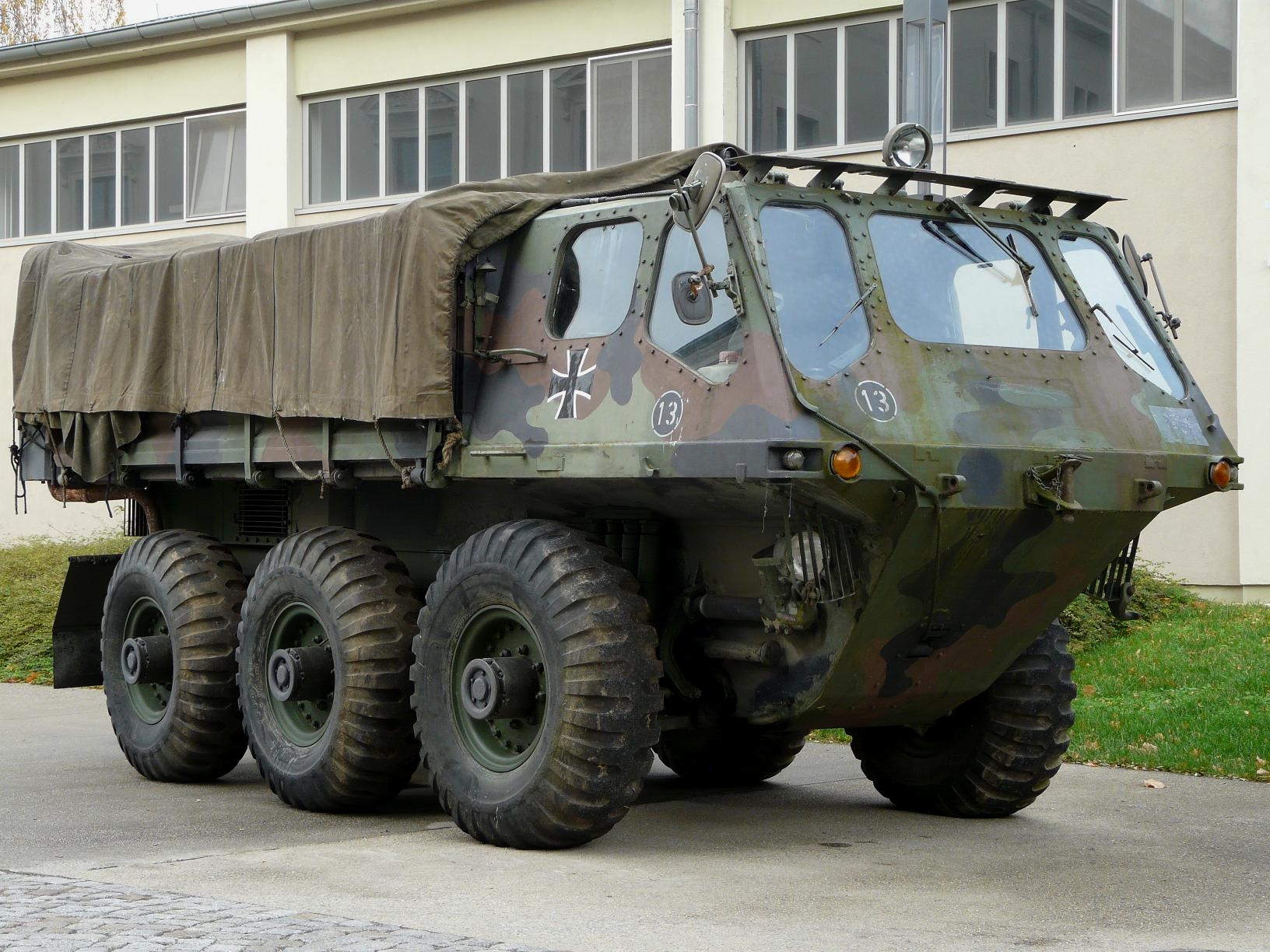 Amphibious vehicle Alvis Stalwart Mk.2 FV 622 in the Bundeswehr Military History Museum in Dresden.It has come to light that this is actually an Ex British Army Stalwart painted to represent a Bundeswehr vehicle and is no longer on display.